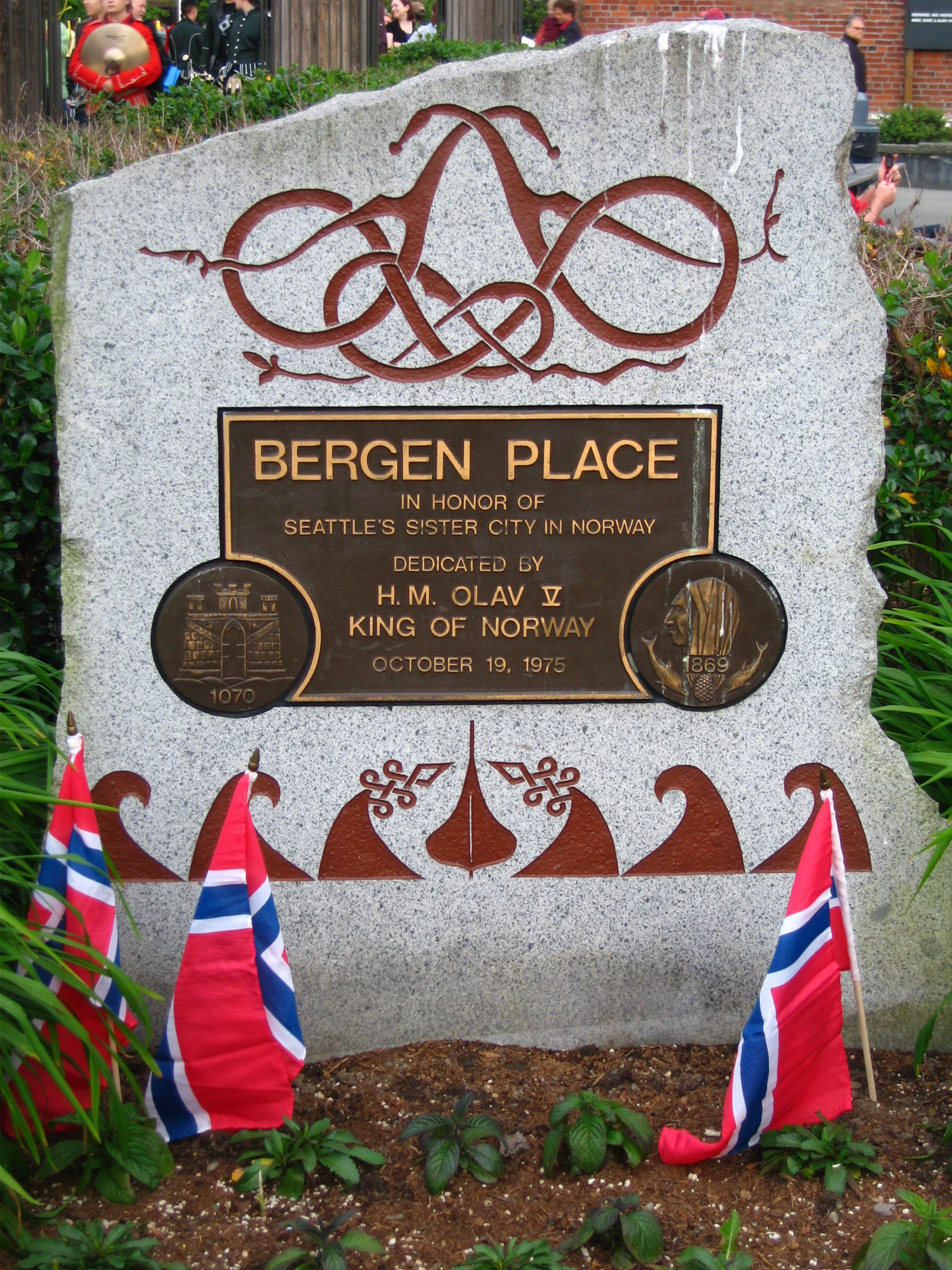 Norwegian Constitution Day, 17 May, celebrated in Ballard, Seattle, 2010. Bergen Place Monument.